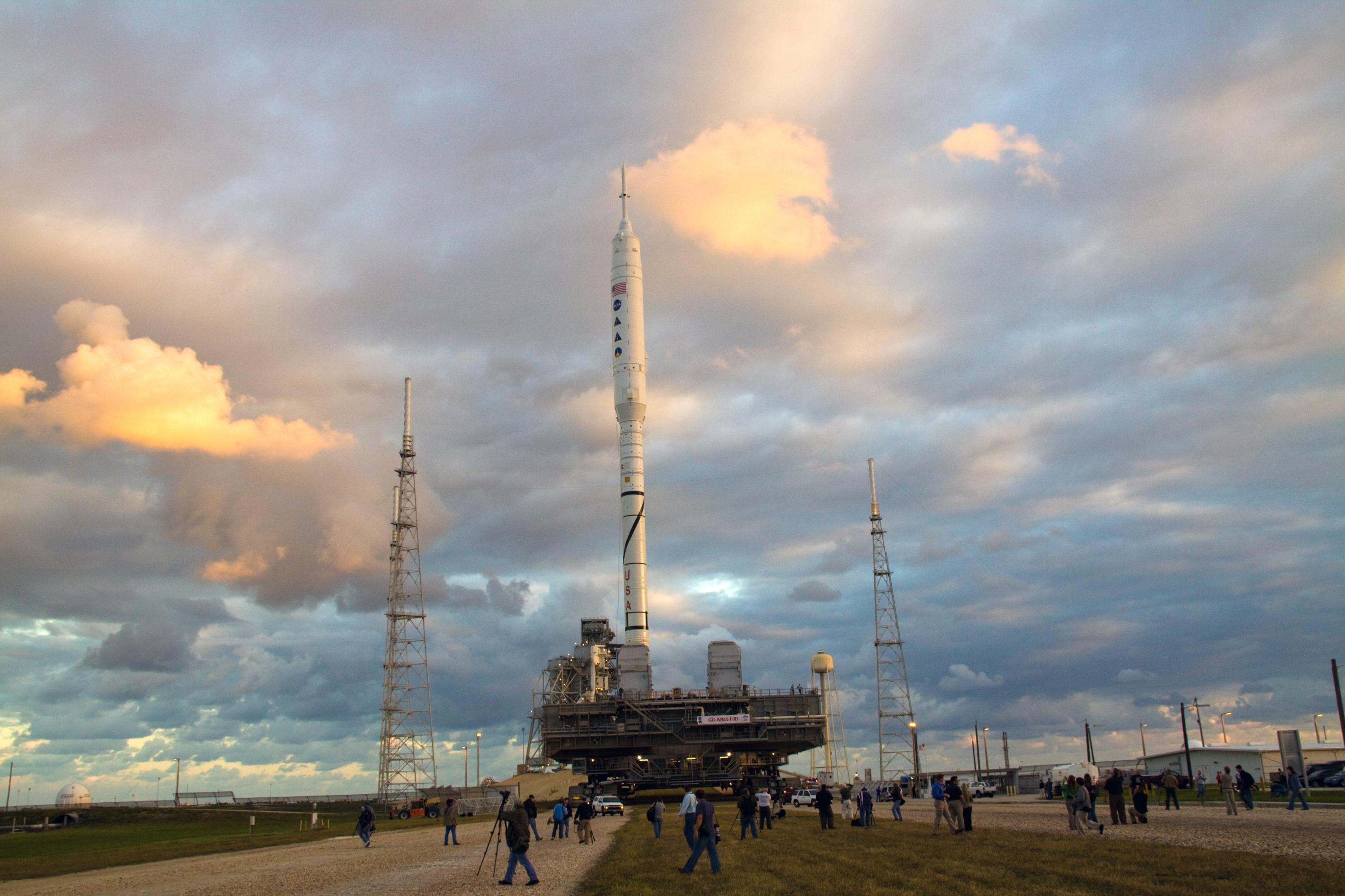 An image of Ares I-X being rolled out from the main building of the Kennedy Space Center.